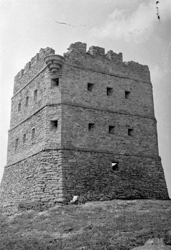 Eskibel Castle in the city of Vitoria-Gasteiz, Spain